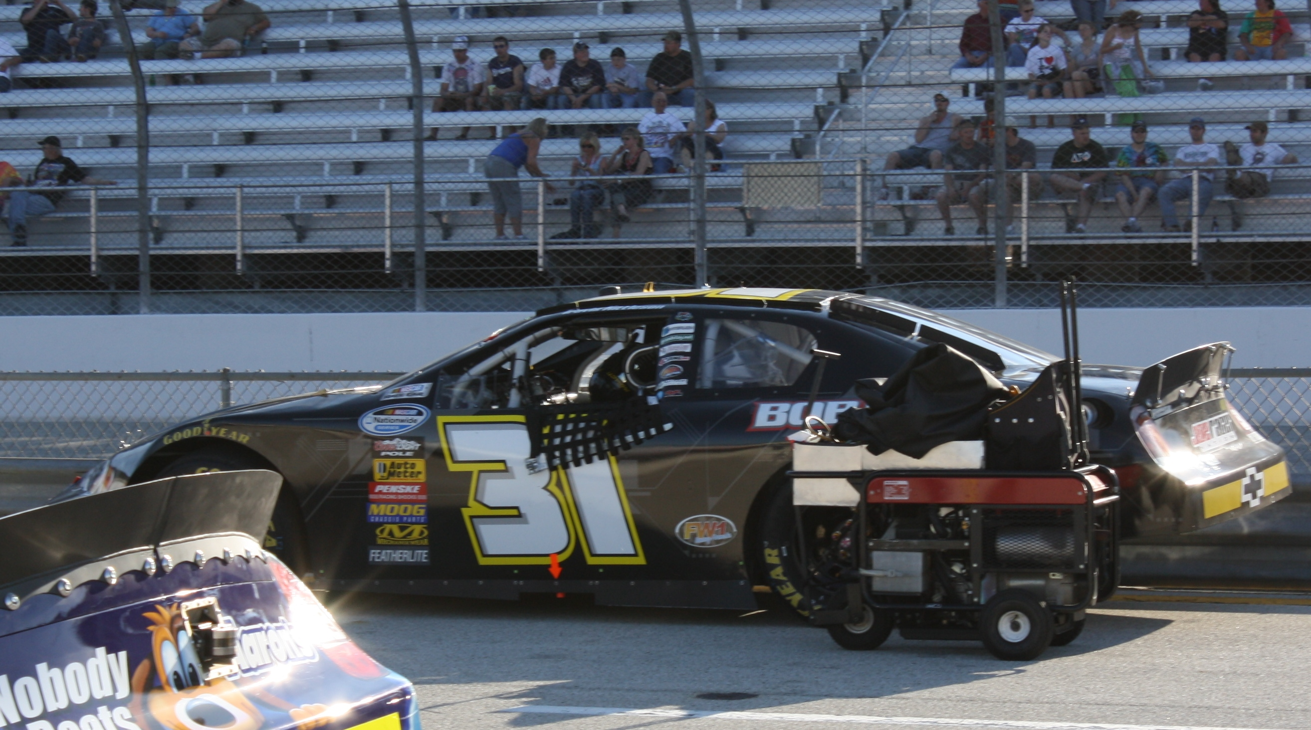 NASCAR driver Travis Kittlesons Chevrolet at the 2009 Northern 250 Nationwide Series race at the Milwaukee Mile.